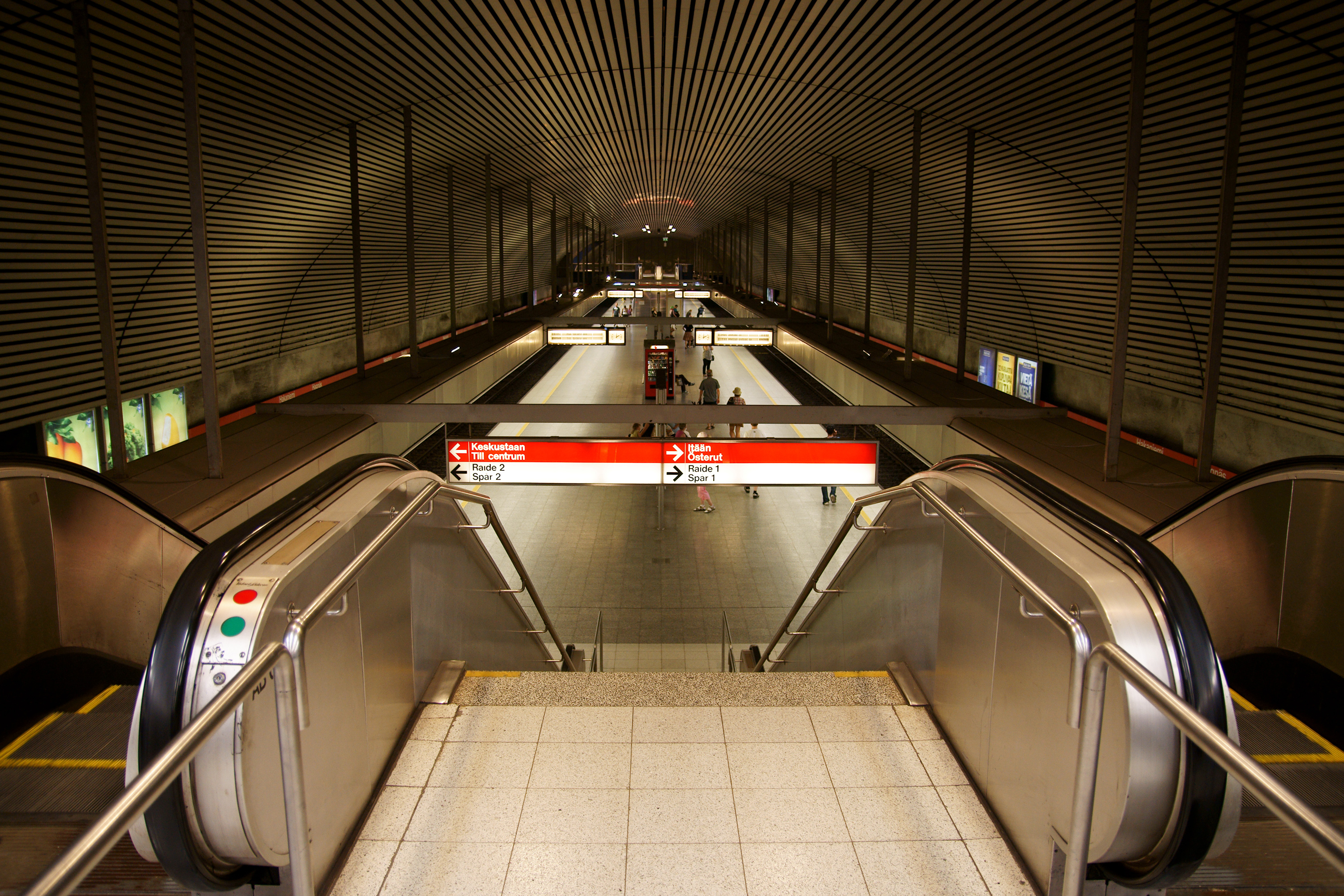 Hakaniemi metro station in Helsinki, Finland.